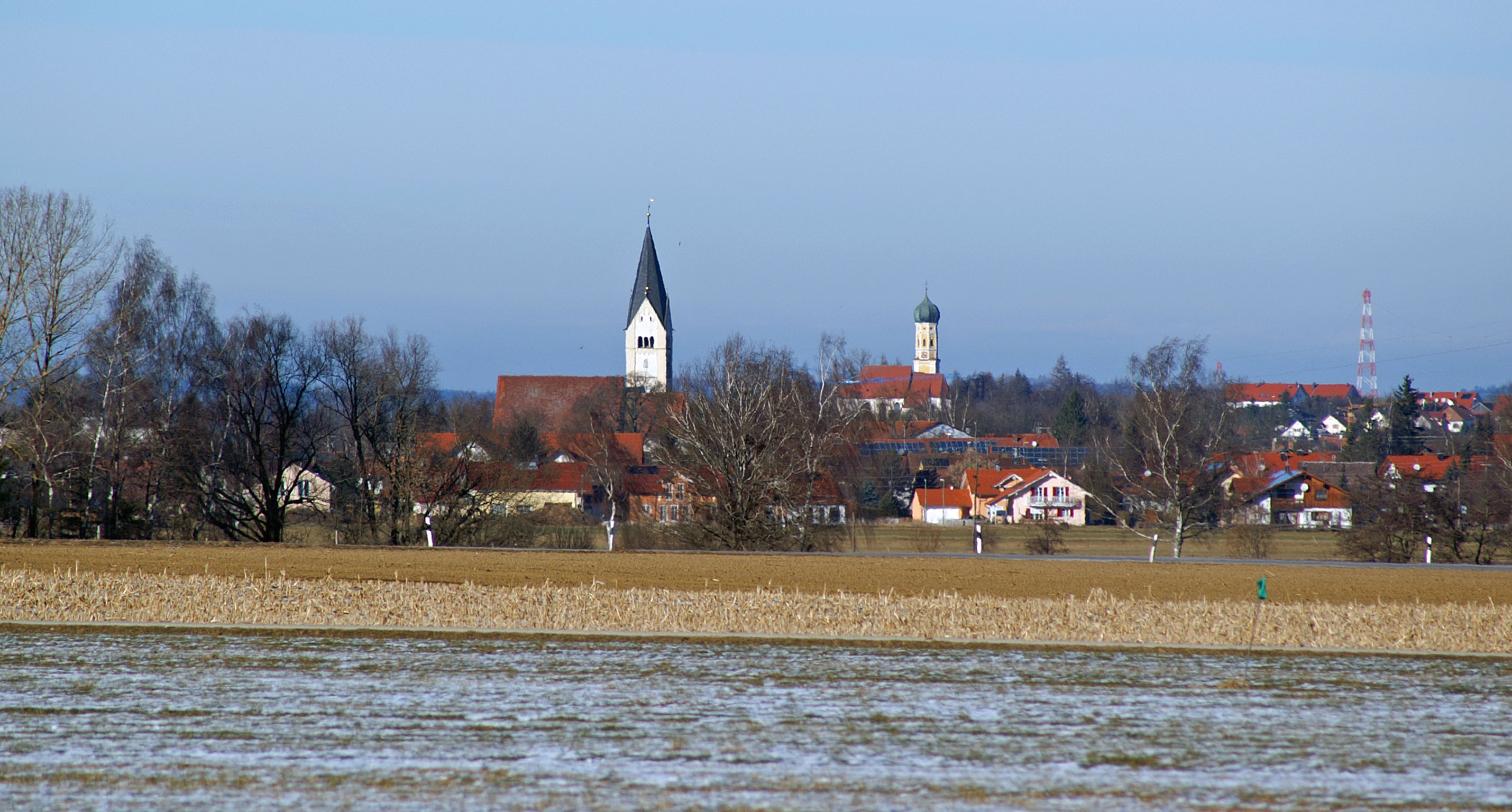 Jengen von Süden